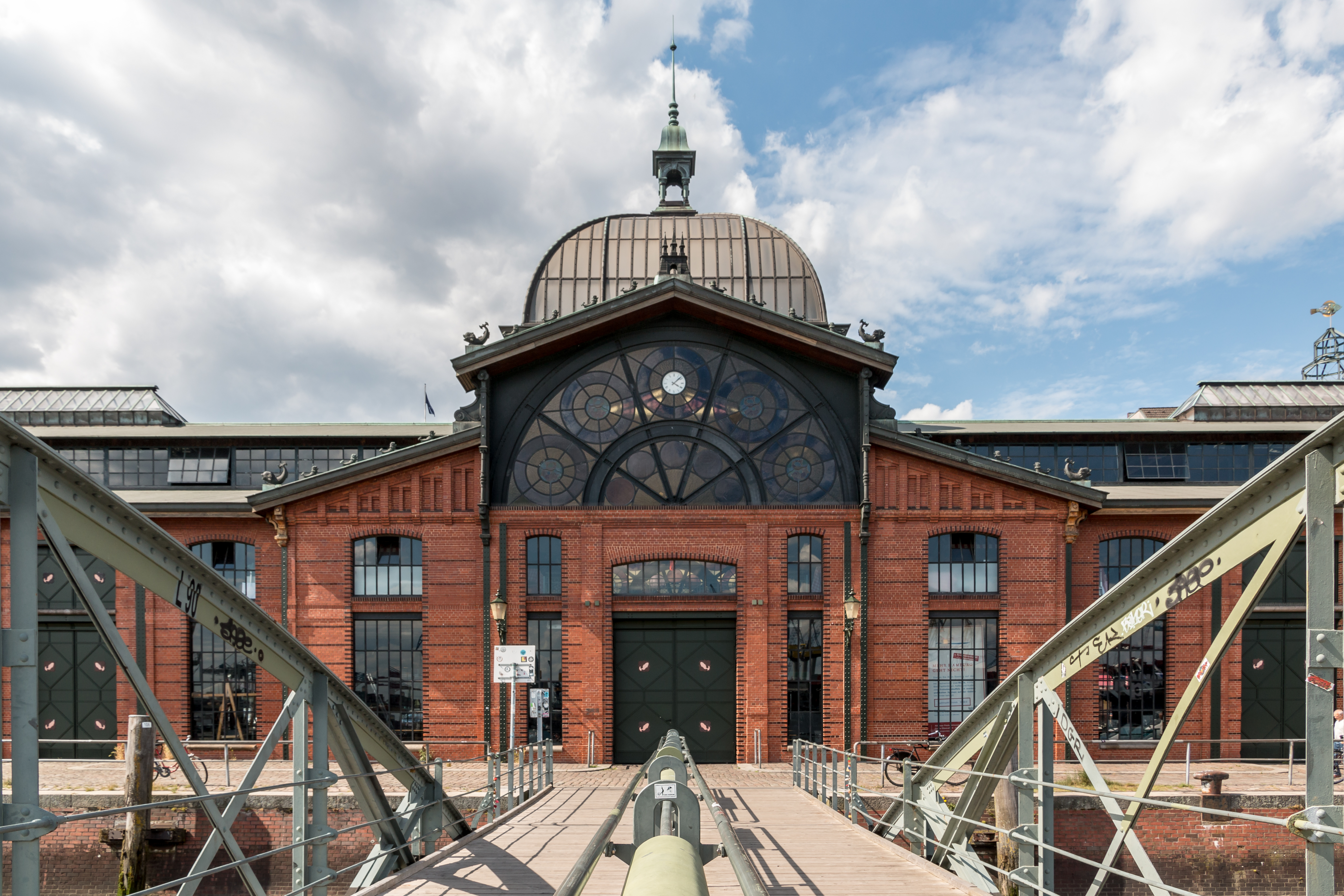 Fischauktionshalle, Hamburg, Germany This is a photograph of an architectural monument.